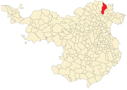 Rabós